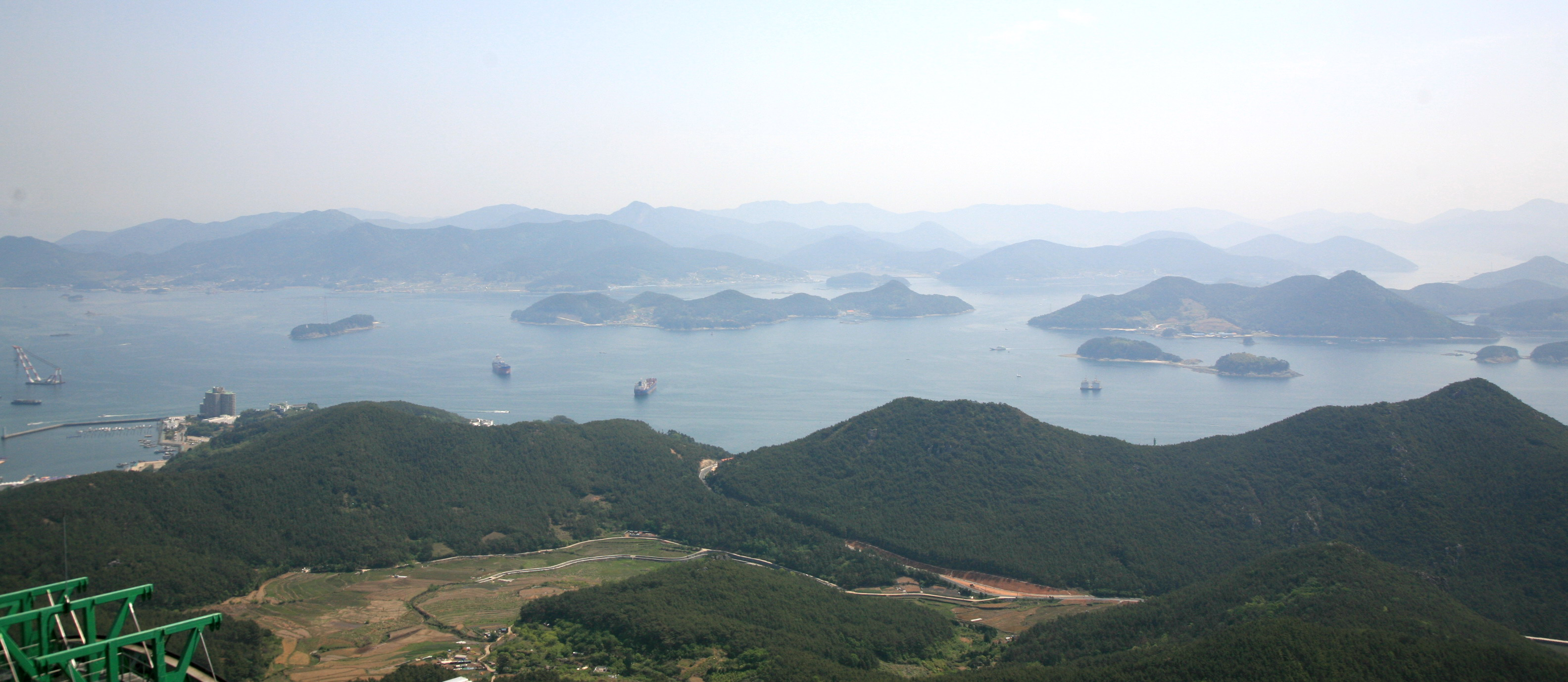 View of Hallyeo National Marine Park in Tongyeong, South Gyeongsang province, South Korea